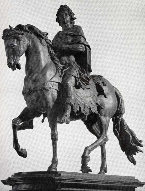 King Carl XI of Sweden